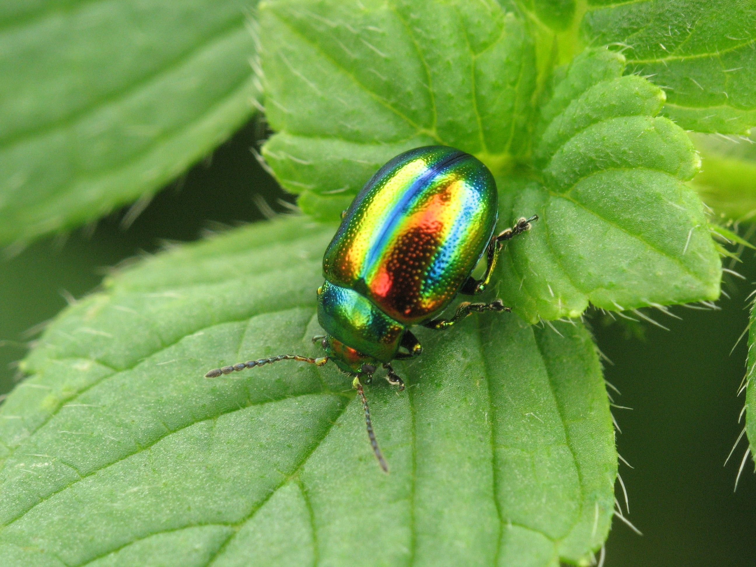 Chrysolina fastuosa, Location Zgierz (Słupsk County, Pomeranian Voivodeship, Poland)